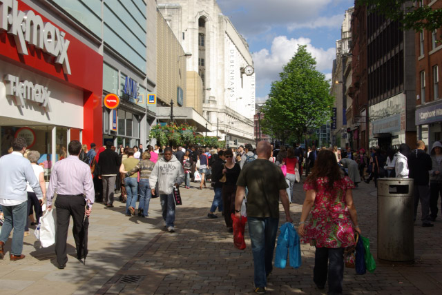 Market Street, Manchester A Saturday afternoon crowd mills along pedestrianised Market Street between the Arndale Centre and Piccadilly Gardens - the heart of Manchester's shopping district.